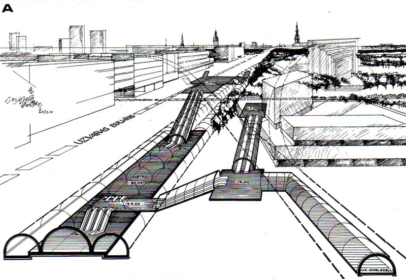 aksonometrical project of placing of station Uzvaras of Riga metro